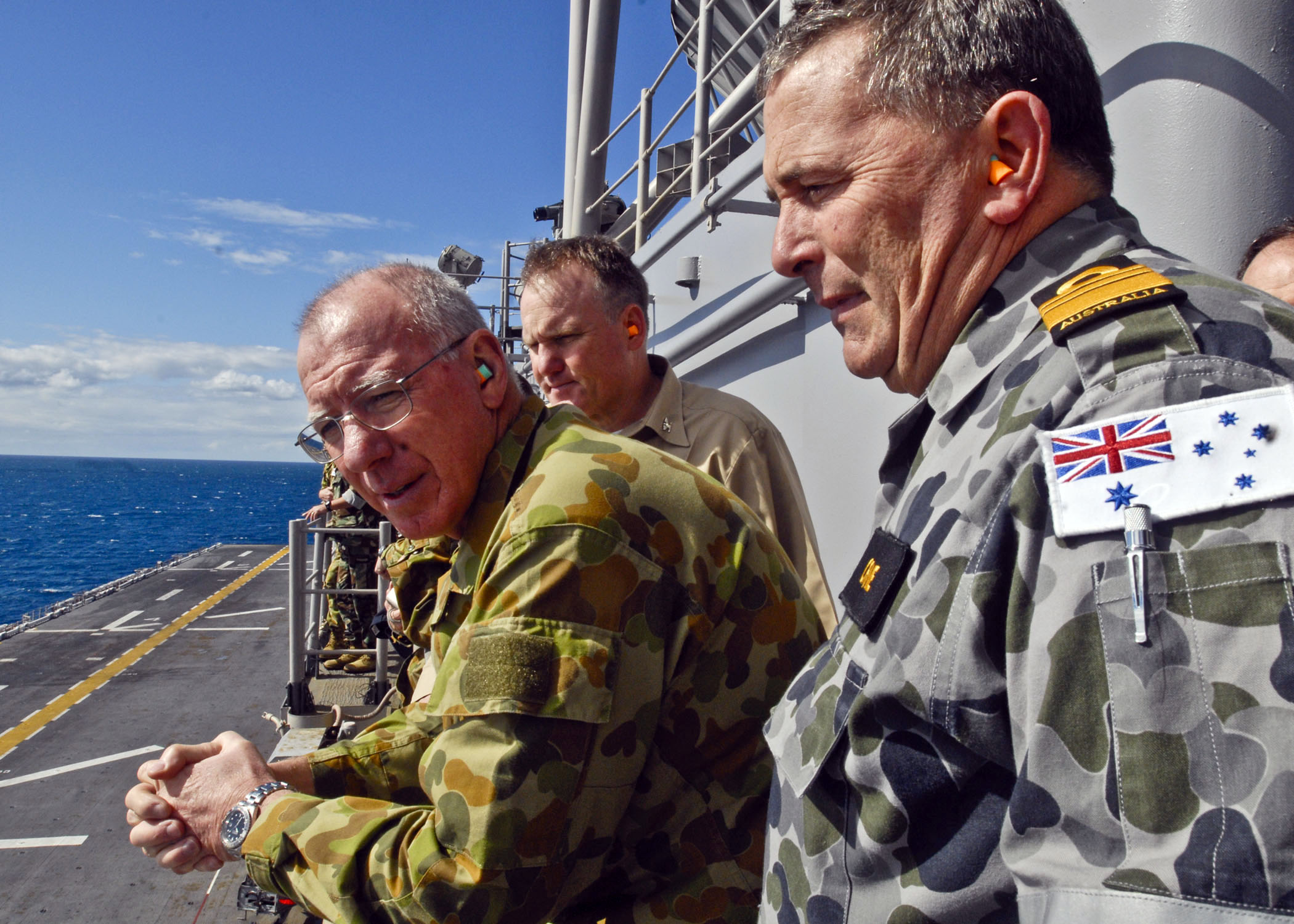 CORAL SEA (July 20, 2009) Royal Australian Navy Chief of Navy, Vice Adm. Russ Crane, Australian Army Lt. Gen. David Hurley and Capt. Brent Canady, commanding officer of the forward-deployed amphibious assault ship USS Essex (LHD 2), observe flight operations aboard Essex during exercise Talisman Saber 2009. Crane visited Essex to discuss U.S.-Australian interoperability and directly observe exercise activities. Talisman Saber is a biennial joint military exercise between the U.S. and Australia focusing on operational and tactical interoperability. (U.S. Navy photo by Mass Communication Specialist 2nd Class Greg Johnson/Released)